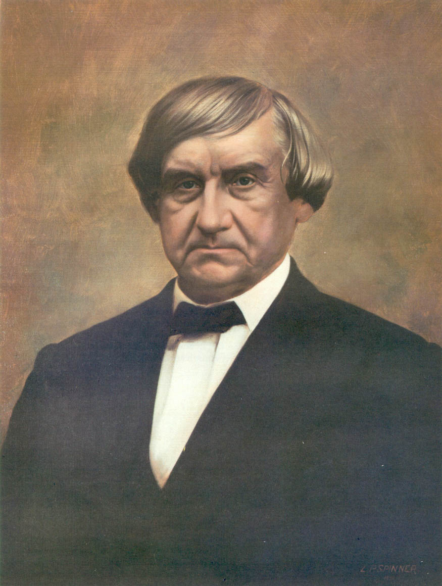 Joseph Holt (1807-1894), 18th United States Postmaster General; 25th United States Secretary of War; 6th Judge Advocate General of the United States Army.